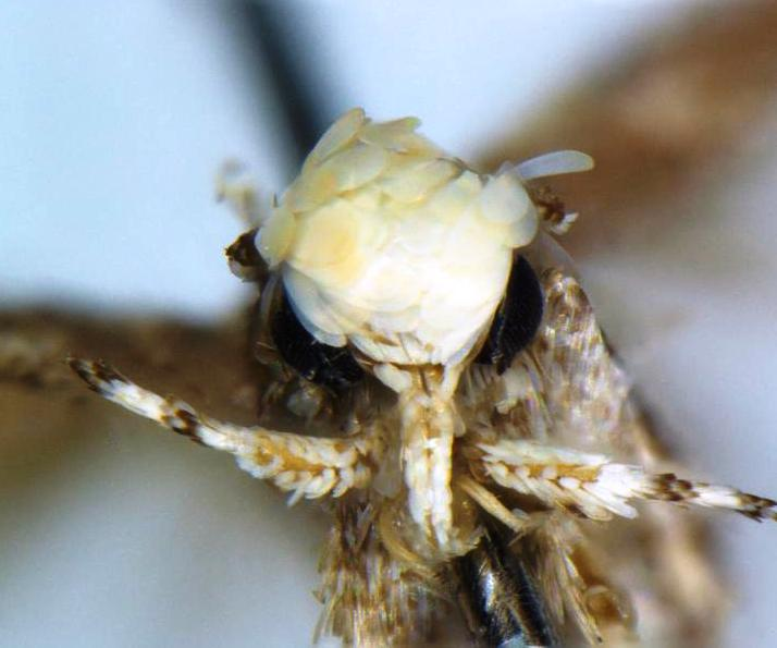 Close up photograph of the head of the holotype of the new species of micro-moth Neopalpa donaldtrumpi by Dr. Vazrick Nazari